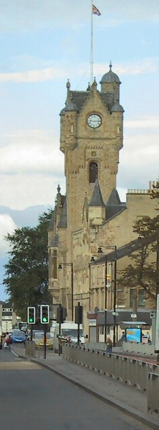 Rutherglen Town Hall Crop